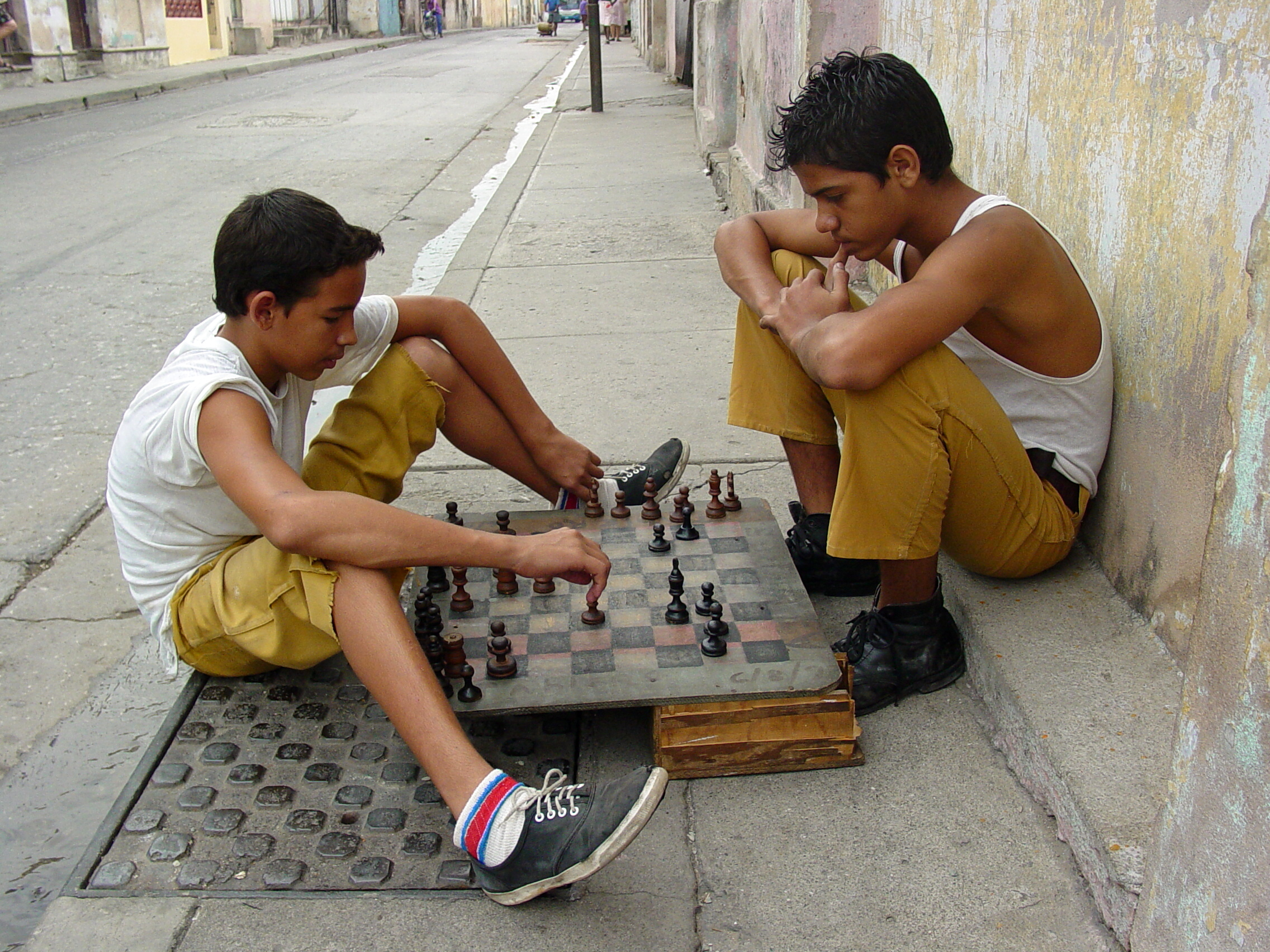 Boys play chess on the street, Santiago de Cuba, Cuba. January 2003. Note the way in which the drain cover on the street mirrors the pattern of the chessboard.